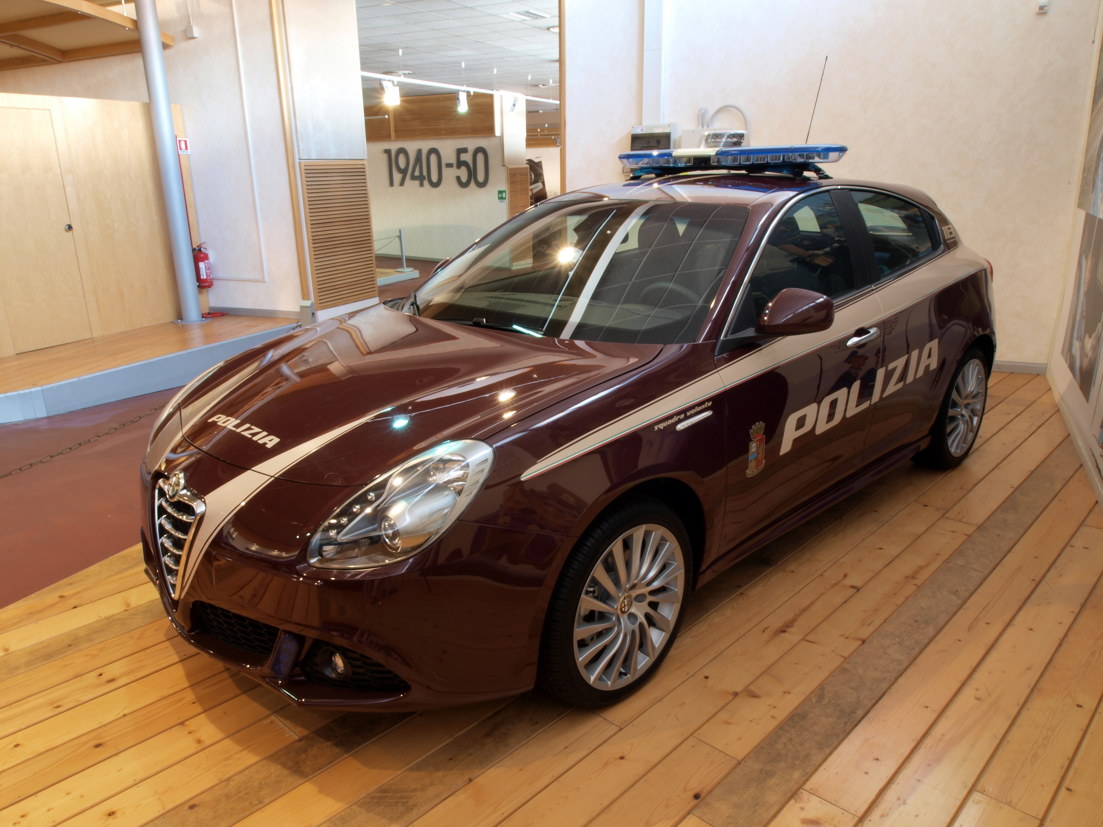 Photographed at Rome, Italy.